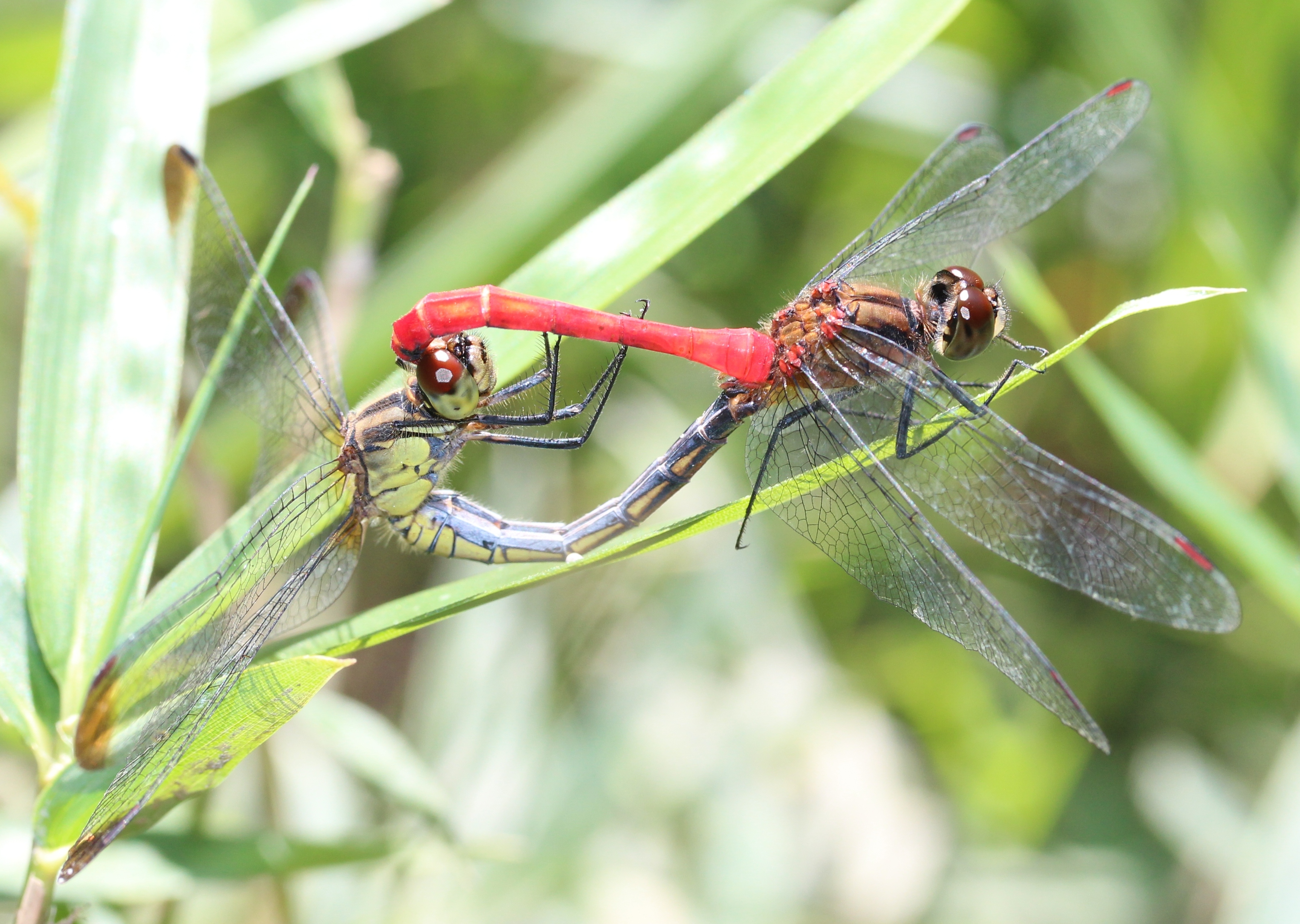 Sympetrum eroticum eroticum (Selys, 1883), mating in Gifu prefecture, Japan.